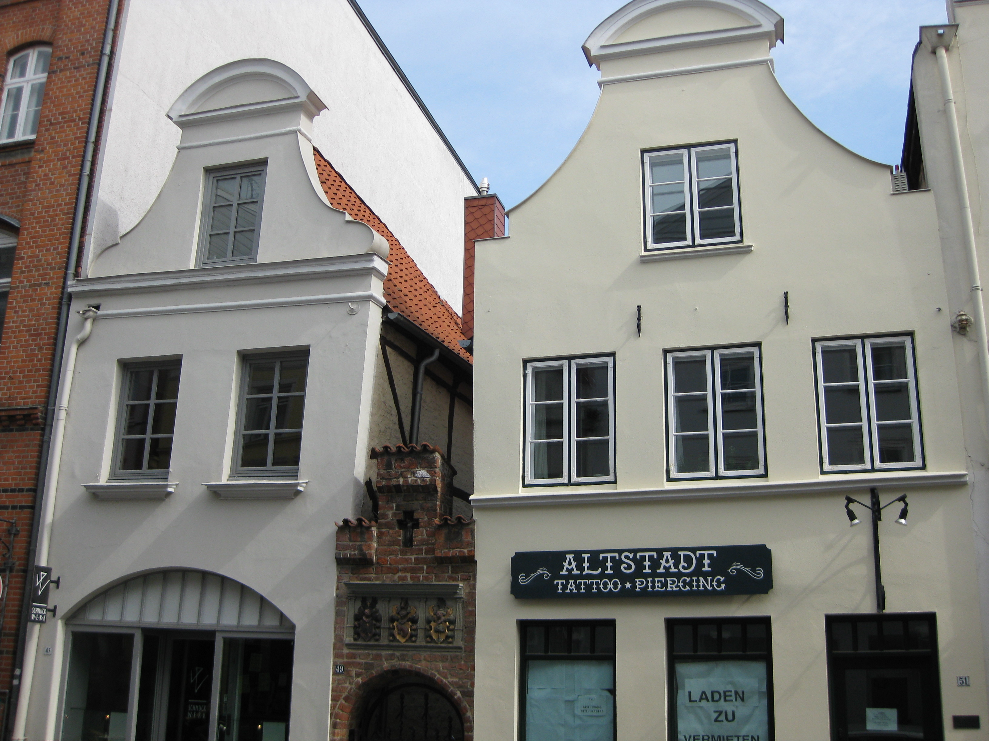 The street side houses with the shops wer sold to third parties by the board of the Bruskau foundation in 1790.